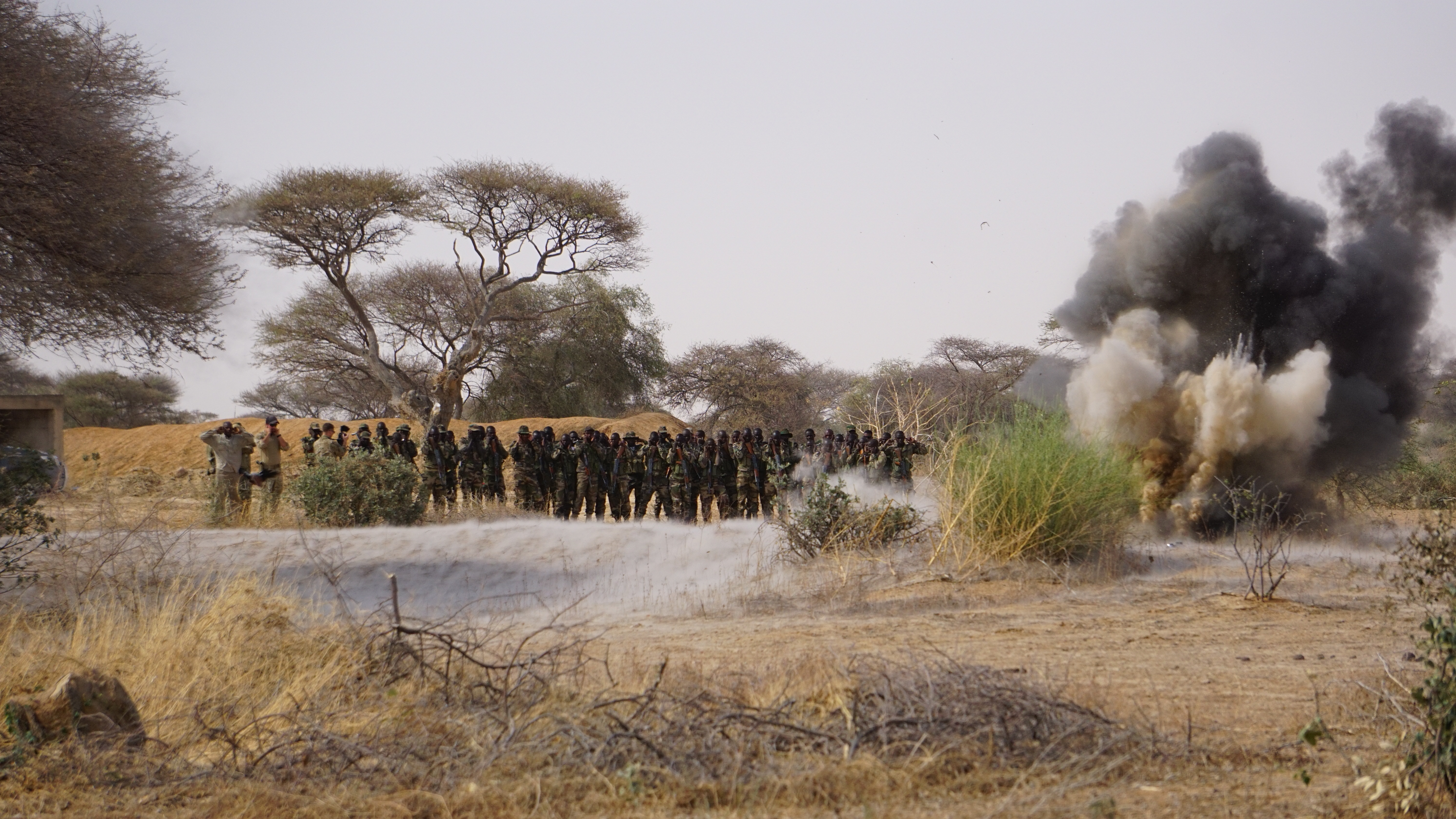 Nigerien, Australian, and U.S. service members observe as an explosive detonates as part of a counter IED class for Flintlock 2017 in Diffa, Niger, Mar. 1, 2017. Flintlock bolsters partnerships between African, European and North American Special Operations Forces which increases their ability to work together in response to crises. (U.S. Army photo by Spc. Zayid Ballesteros) Unit: U.S. Africa Command DVIDS Tags: Canada; United States; Australia; Belgium; 3rd Special Forces Group; SOCAfrica; Niger; SOCAF; Special Operations Command Africa; Diffa; Flintlock17; Flintlock 2017; SOCFWD-NWA